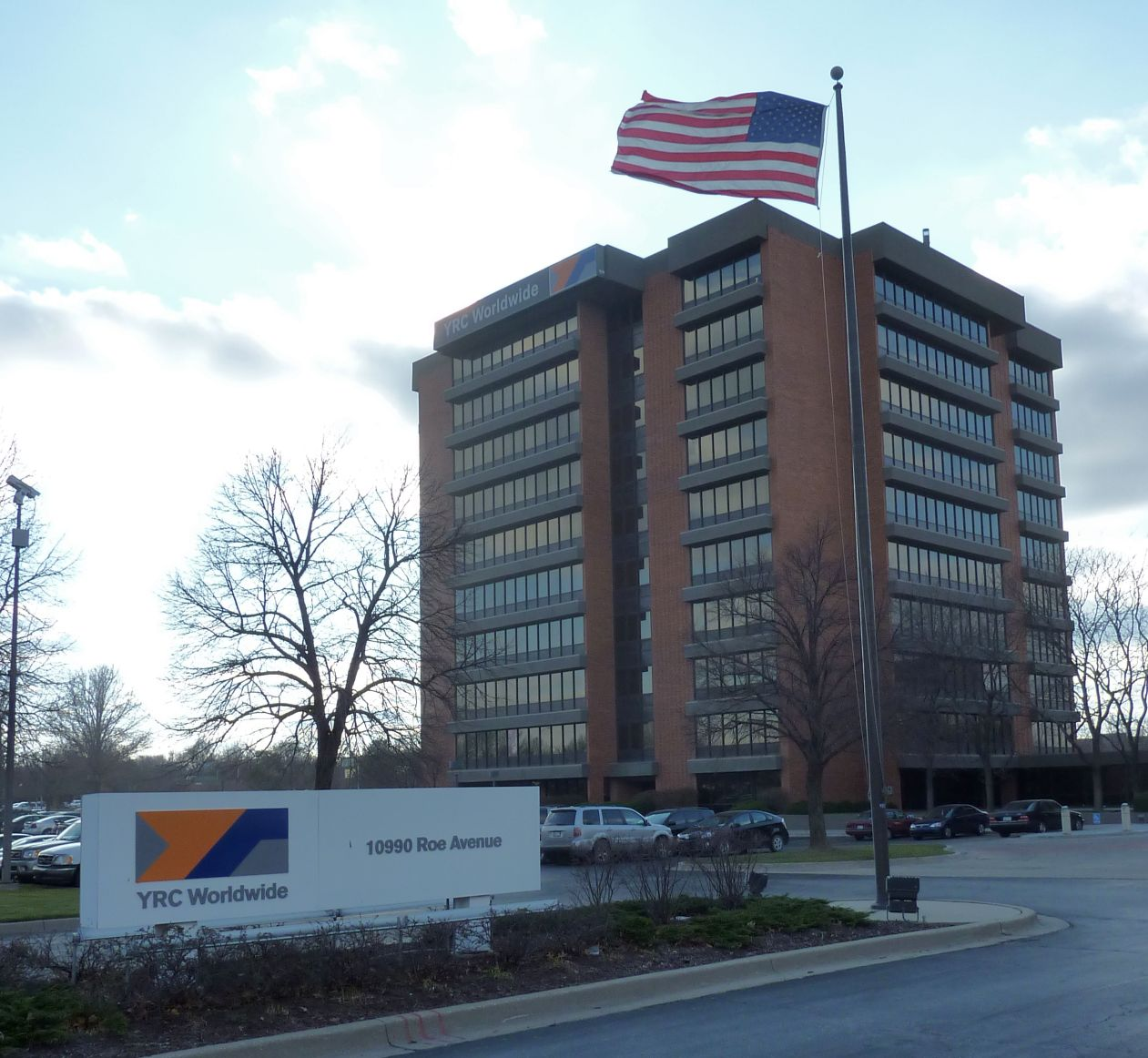 Corporate headquarters of YBR Worldwide